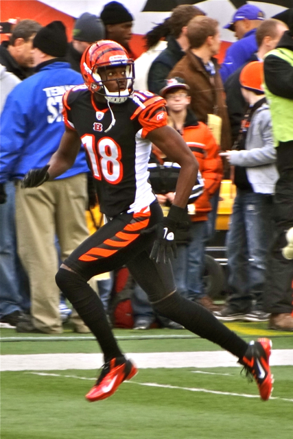 WR AJ Green at the January 1, 2012 Cincinnati Bengals game versus the Baltimore Ravens